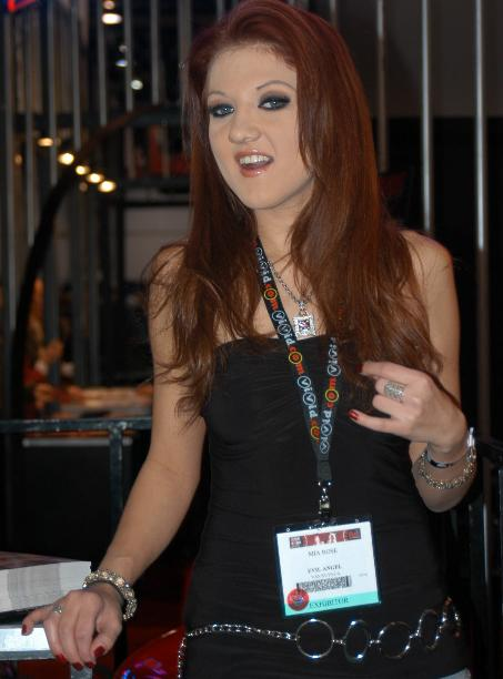 Porn star Mia Rose at the 2007 AVN Adult Entertainment Expo in Las Vegas